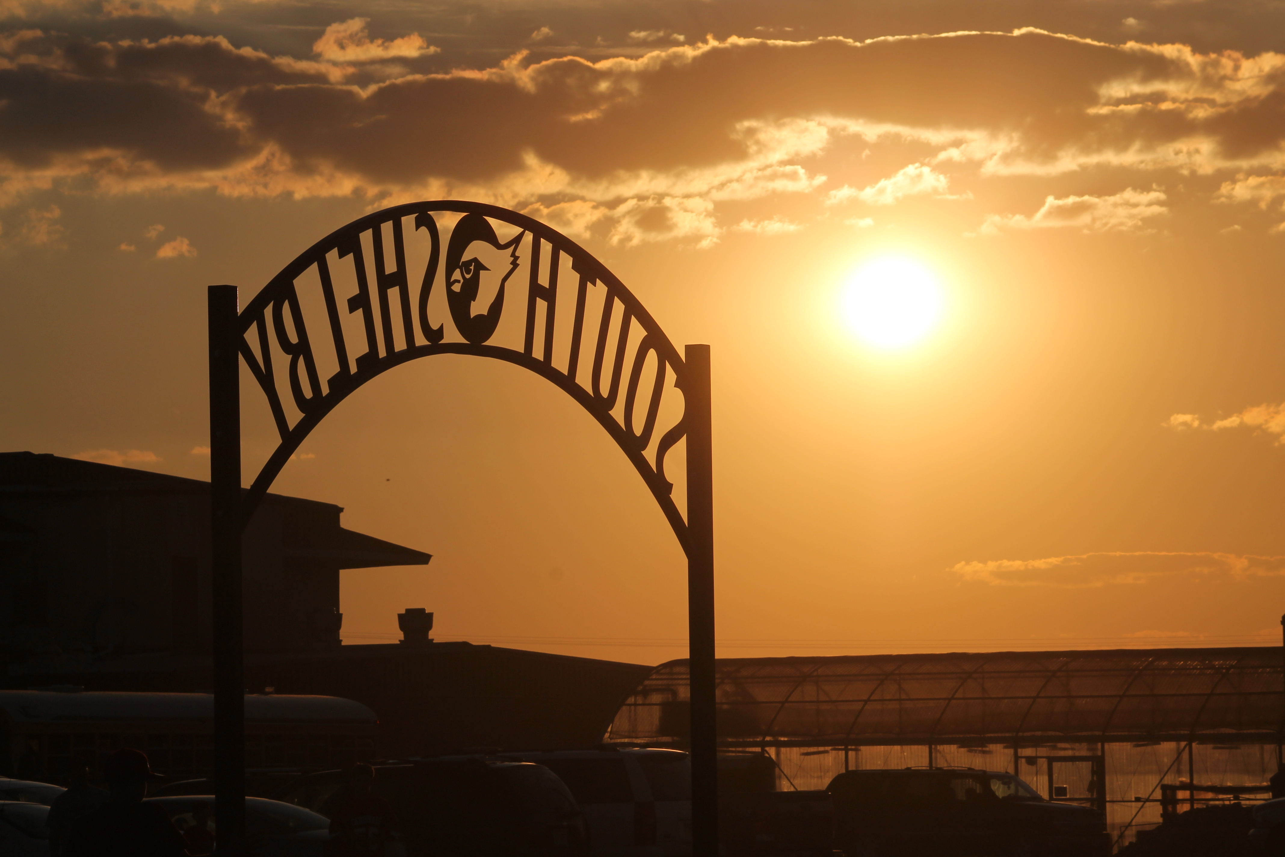 South Shelby Archway